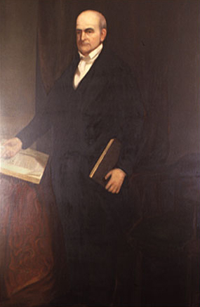 Picture of Hon. Daniel Cady.